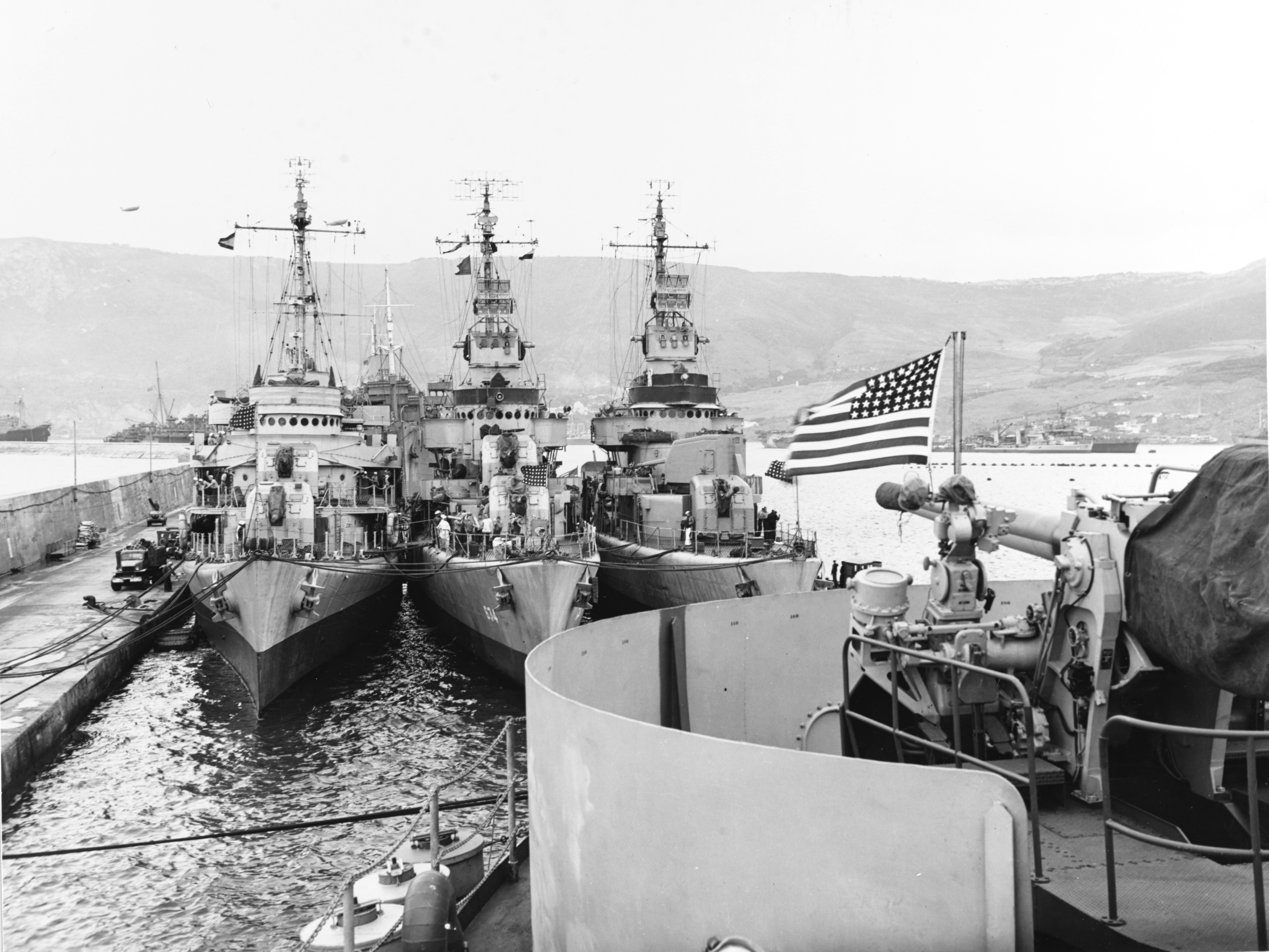 The U.S. Navy seaplane tender USS Biscayne (AVP-11), left, docked at Arzew, Algeria, on 11 June 1944 during amphibious exercises there. The destroyer USS Doran (DD-634) and a sister are outboard. Photographed from USS Catoctin (AGC-5).